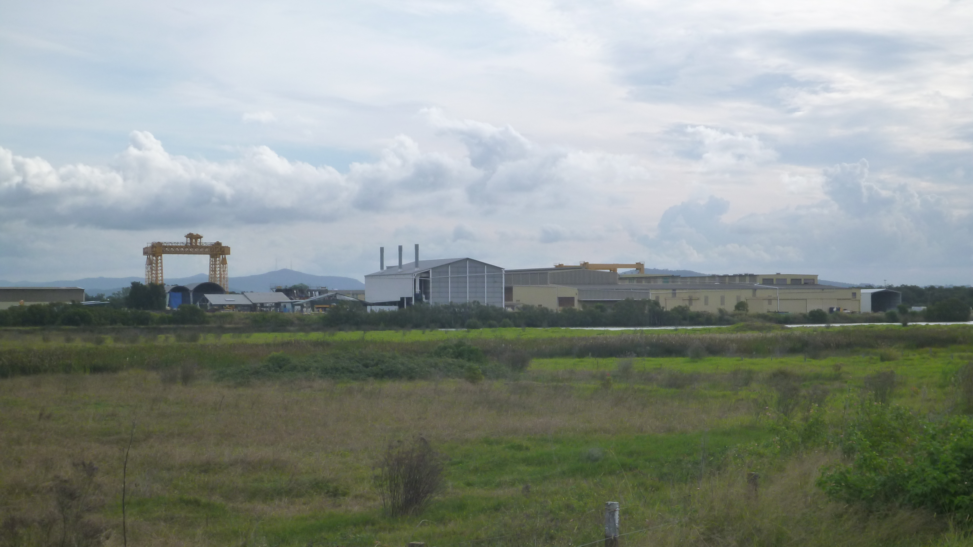 Forgacs Shipyard at Tomago, seen from Laverick Avenue in New South Wales, Australia. The large cranes to the left of the image were built for construction of HMAS Tobruk (L 50). Mount Sugarloaf is prominent in the background.